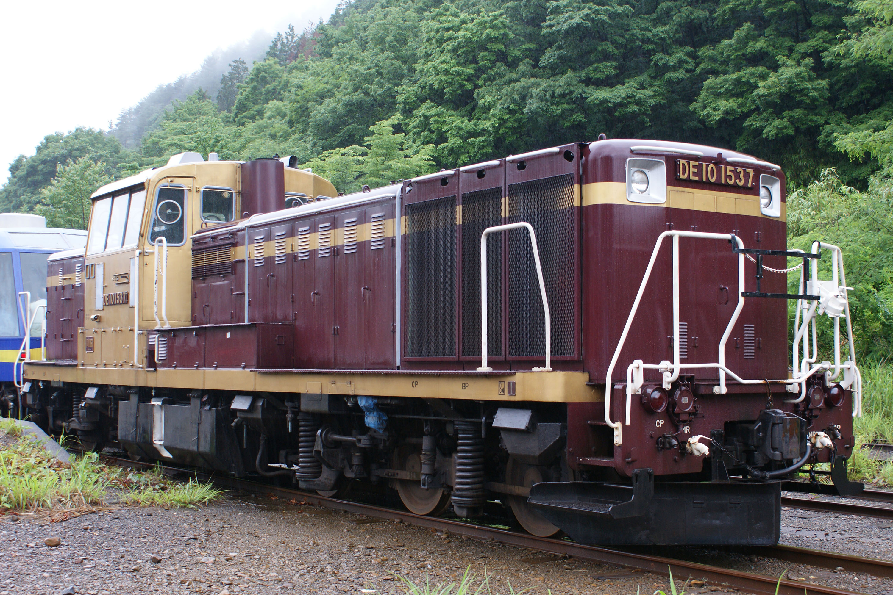 Watarase Keikoku Railway type DE10-1537 diesel locomotive (Akagane-color).